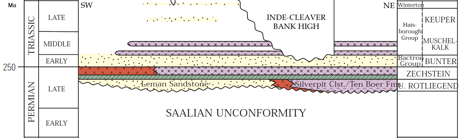 Detail of a generalized stratigraphic column of the Southern North Sea Basin (including parts of NW Germany, the Netherlands and eastern England) showing the sequence that includes the Zechstein salt (Upper Permian). Meaning of patterns: chevron and “x” pattern on reddish and violet ground, respectively: evaporites; hatching on bluish ground: dolomitic limestone and dolomite; stippling on yellowish ground: sandstone; white areas within preserved rock column (i.e. not the hiatuses): not explained in the source but probably marine mudstones/shales.